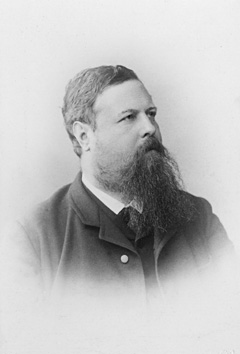 Carl Robert (1850–1922)